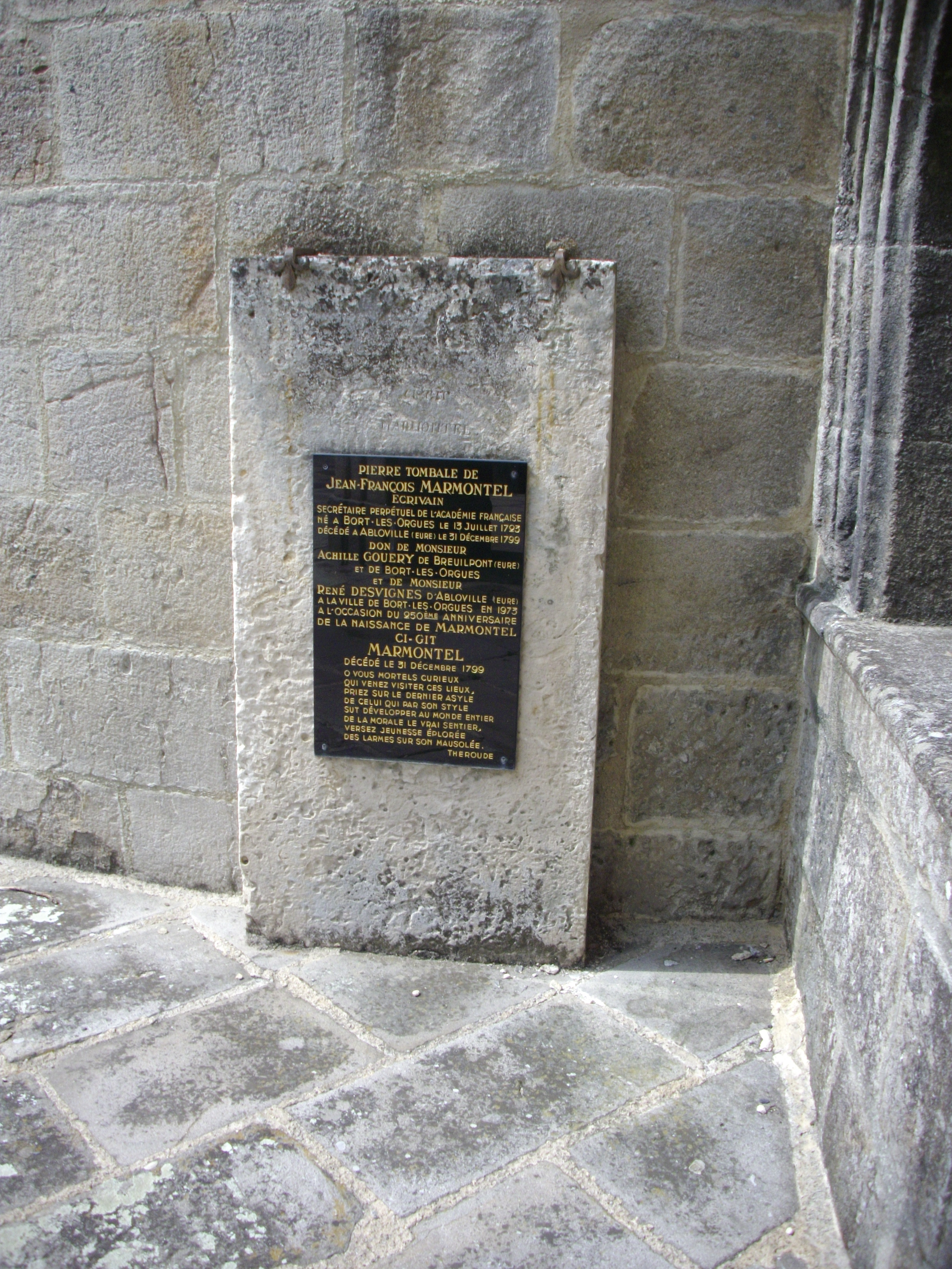 Tombstone of Jean-François Marmontel in Bort-les-Orgues (Corrèze, France)